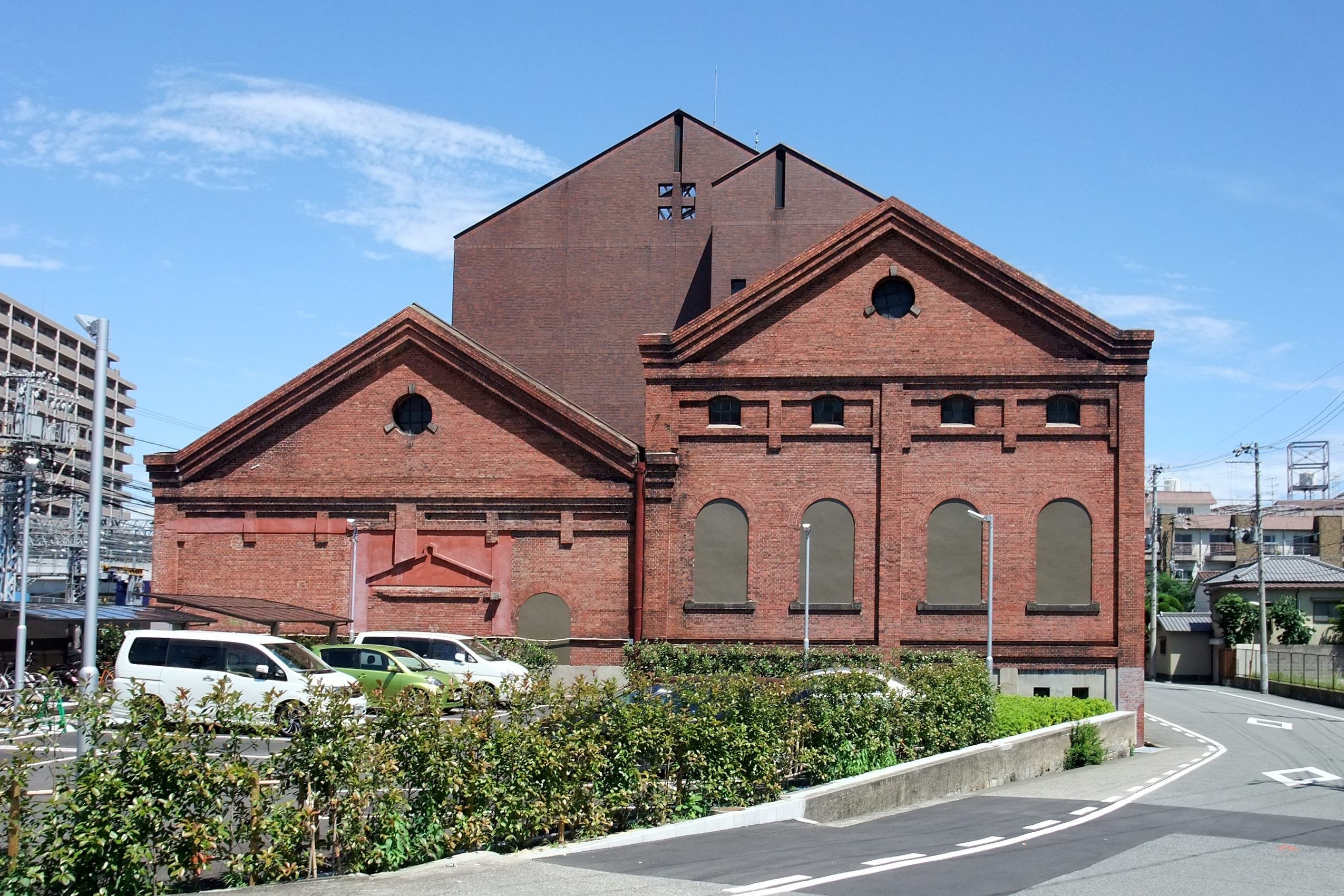 Old Amagasaki Power Plant in Hanshin Railway Amagasaki Depot, Amagasaki Repairing Area, Amagasaki, Hyogo prefecture, Japan